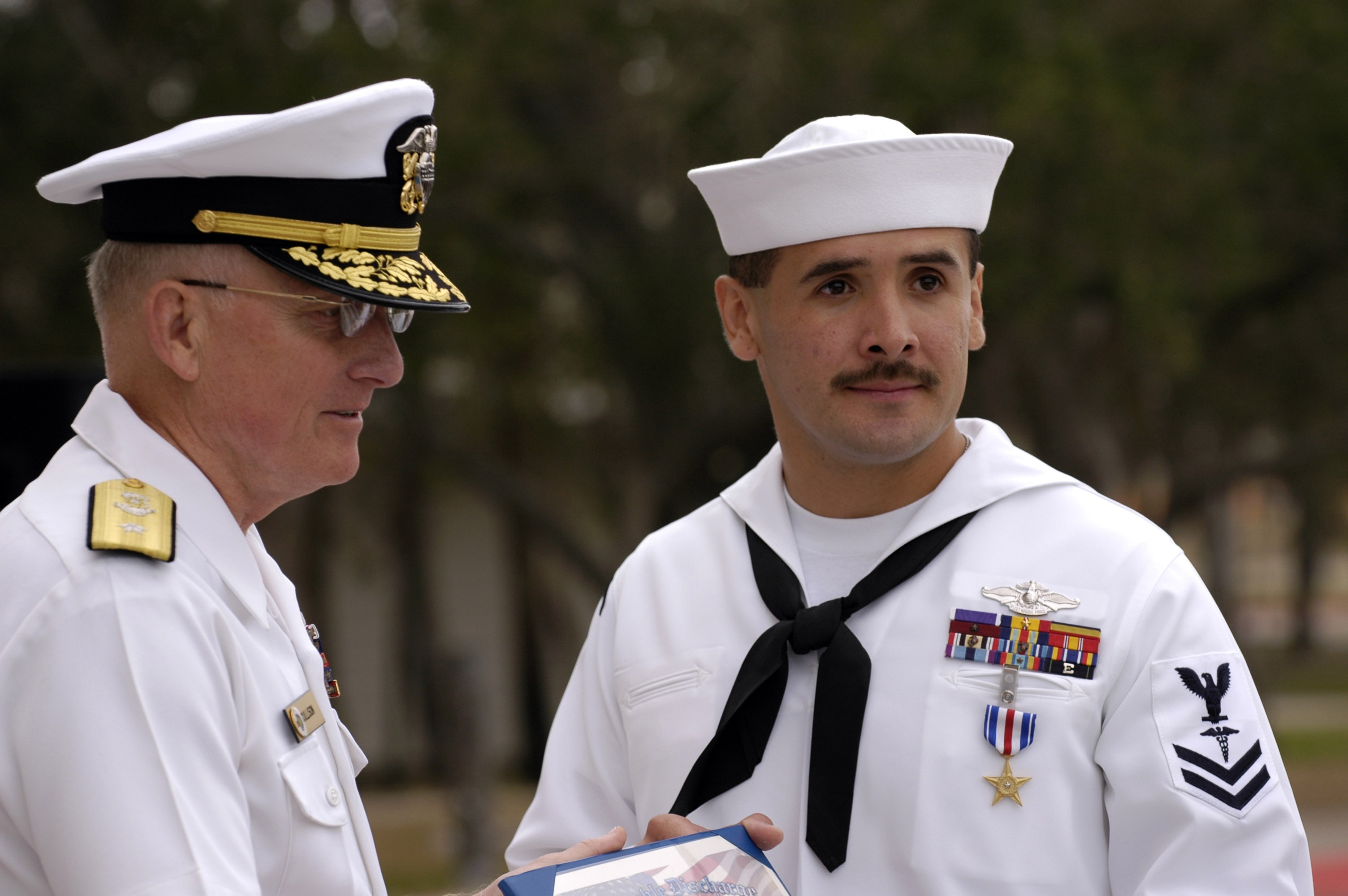 Corpus Christi, Texas (April 27, 2006) - Hospital Corpsman 2nd Class Juan M. Rubio was awarded the Silver Star Medal for conspicuous gallantry against the enemy while serving as a Marine platoon corpsman in support of Operation Iraqi Freedom (OIF). Medical Corps, Commander, Navy Medicine East and Commander, Naval Medical Center, Portsmouth, Va., Rear Adm. Thomas R. Cullison made the presentation in front of the Naval Hospital on board Naval Air Station Corpus Christi. U.S. Navy photo by Mr. Bill W. Love (RELEASED)